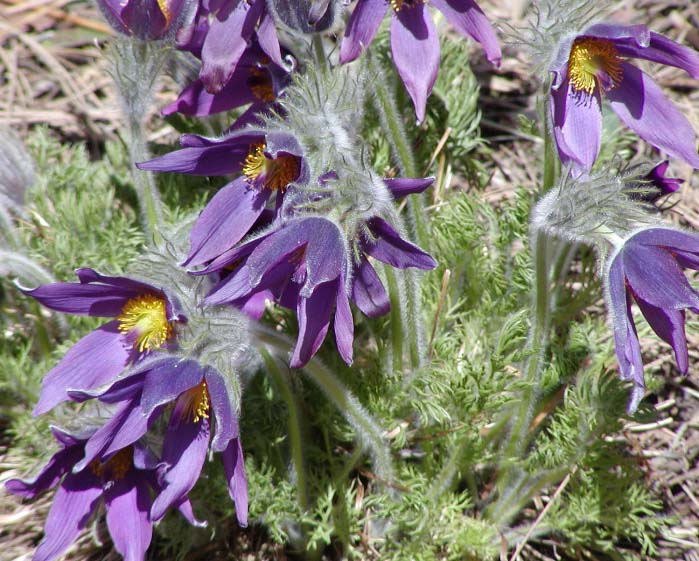 Pulsatilla vulgaris in Flagstaff, Arizona